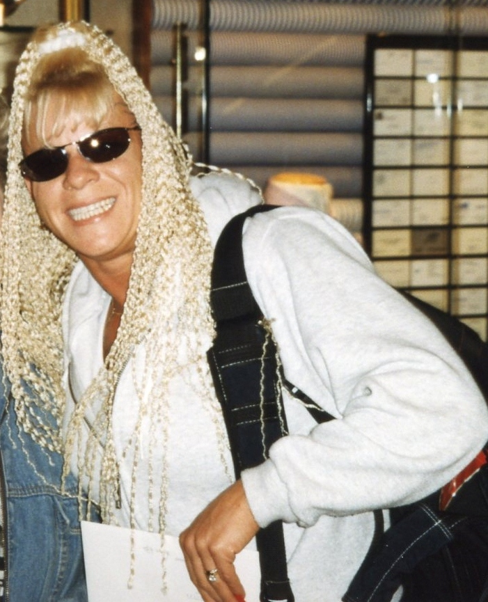 Professional wrestler Luna Vachon posing with a fan (cropped)